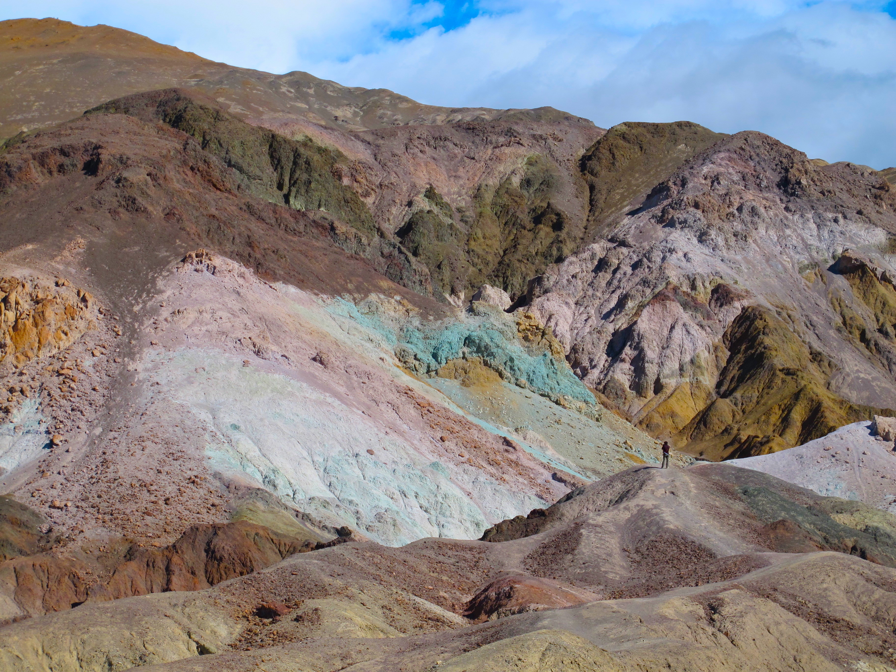 Artist's Drive, Death Valley National Park